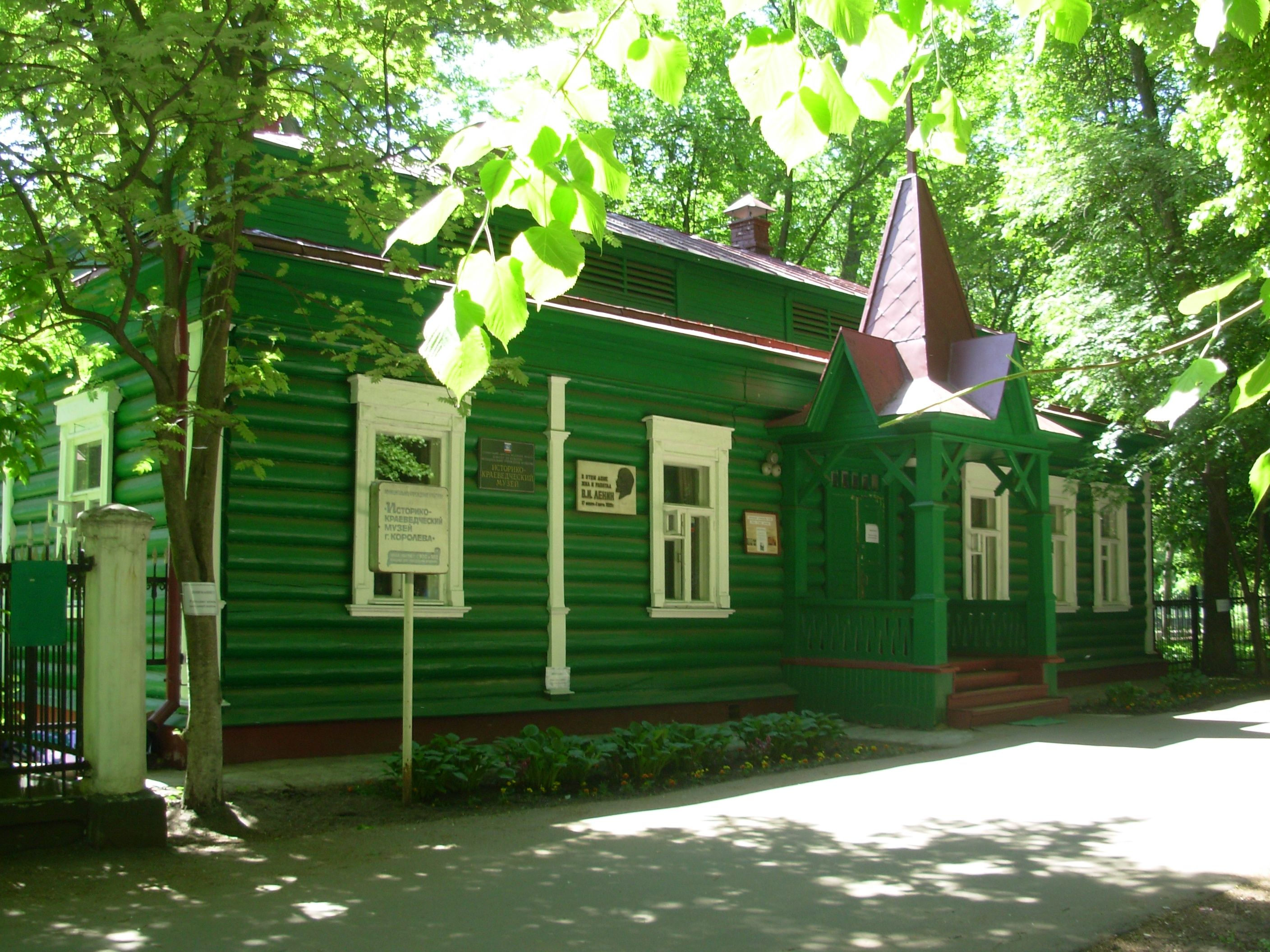 street